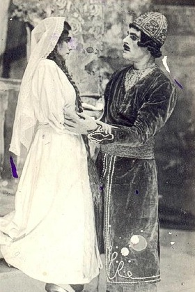 Scene from opera "Ashiq Qarib" of Zulfugar Hajibeyov. Director Y. Yulduz, A. Sharifzade. H. Sarabski as Ashiq Qarib